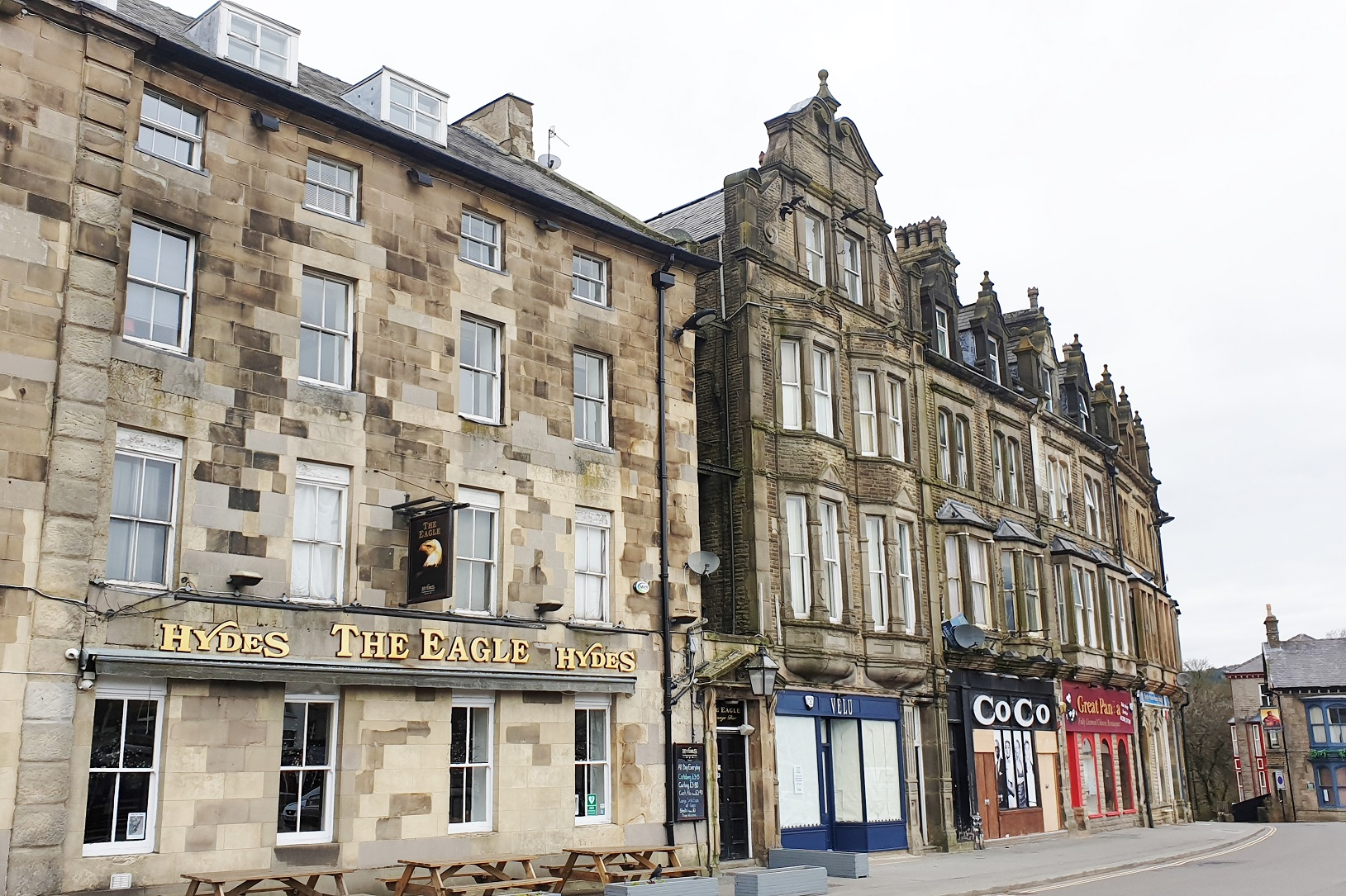 The Eagle at Buxton